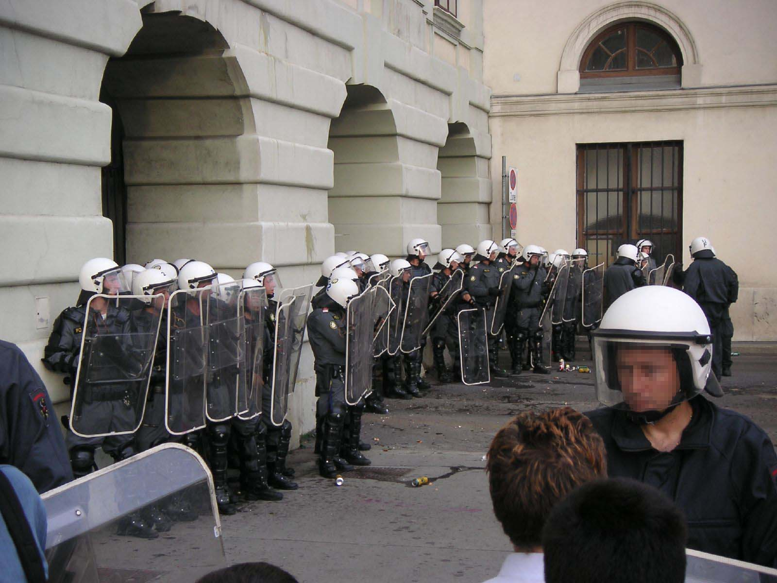 Einsatzeinheit Vienna in full riot-gear. Originaldescription as posted on flickr: On June 21st, 2006, George W. Bush visited Vienna (Austria) to meet with the current president of the EU-council, Austria's chancellor Wolfgang Schüssel. To protest current US politics, imperialism and especially the treatment of the prisoners in Guantanamo more than 20.000 people demostrated, chanting slogans like "Stop Bush", "Bush go home", "No Blood for Oil" and countless others. There was massive police presence and (luckily) - apart from one little incident where stupid people started to throw beer cans and stuff at the police - no violent encounters between the police forces and the demonstrating people.